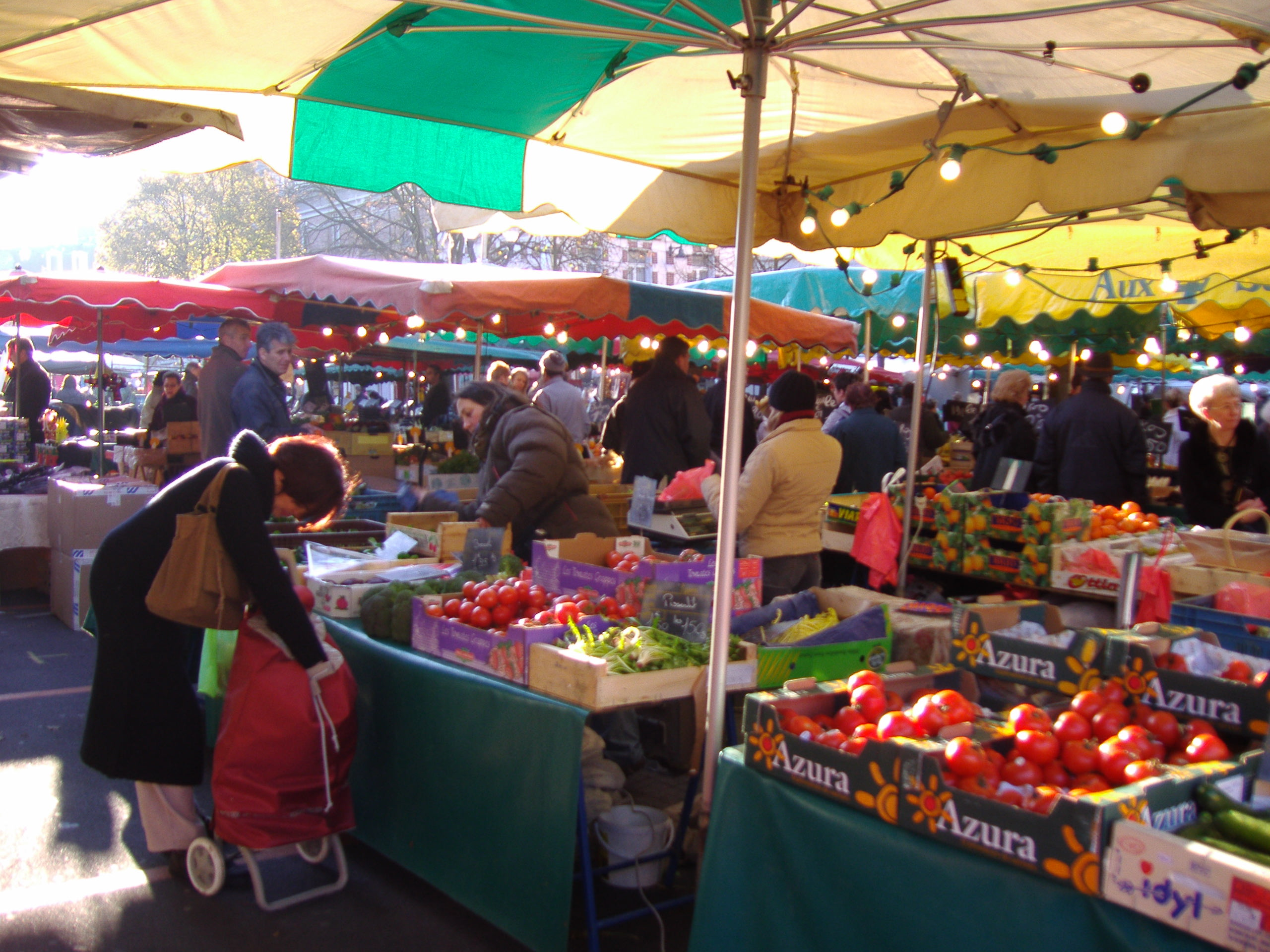 A Digital Photograph of St Quinton Saturday Market by M Hobbs